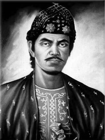 Sultan Mahmud Badaruddin II (1767-1852) was the 8th Sultan of the Palembang Sultanate, is now regarded as a National Hero of Indonesia.